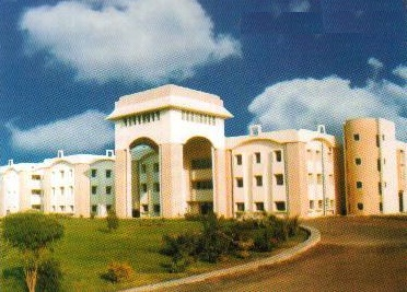 College of Engineering & Technology, Akola, India.